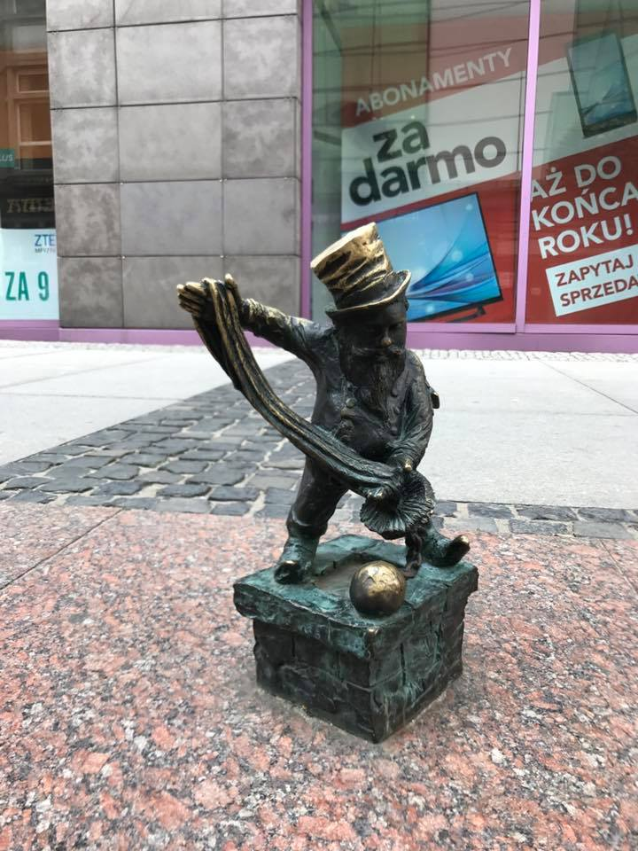 Florianek, Wroclaw's dwarfs. For complete information visit